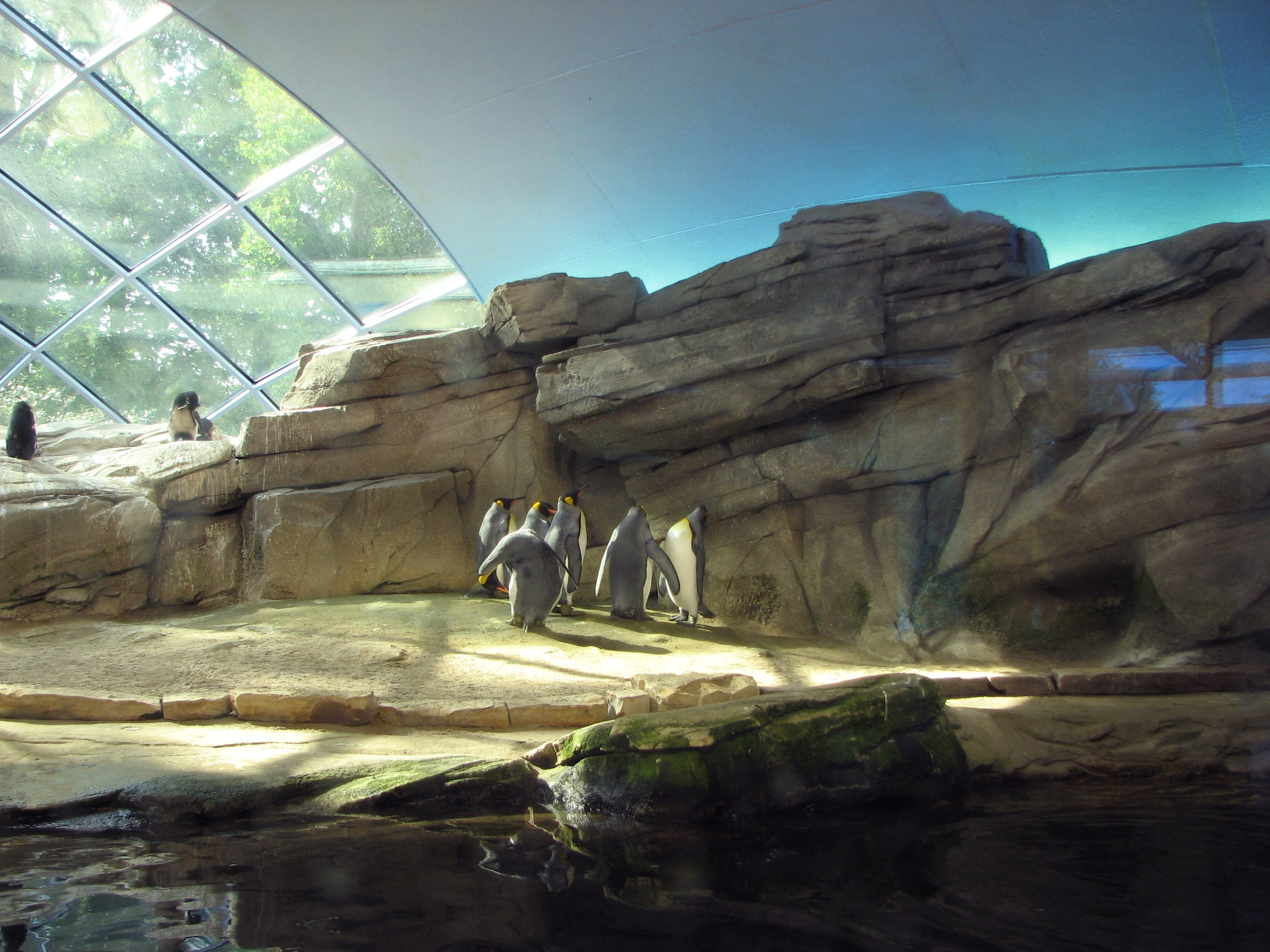 The Penguinarium of Berlin zoo. The group on the right are King penguins.